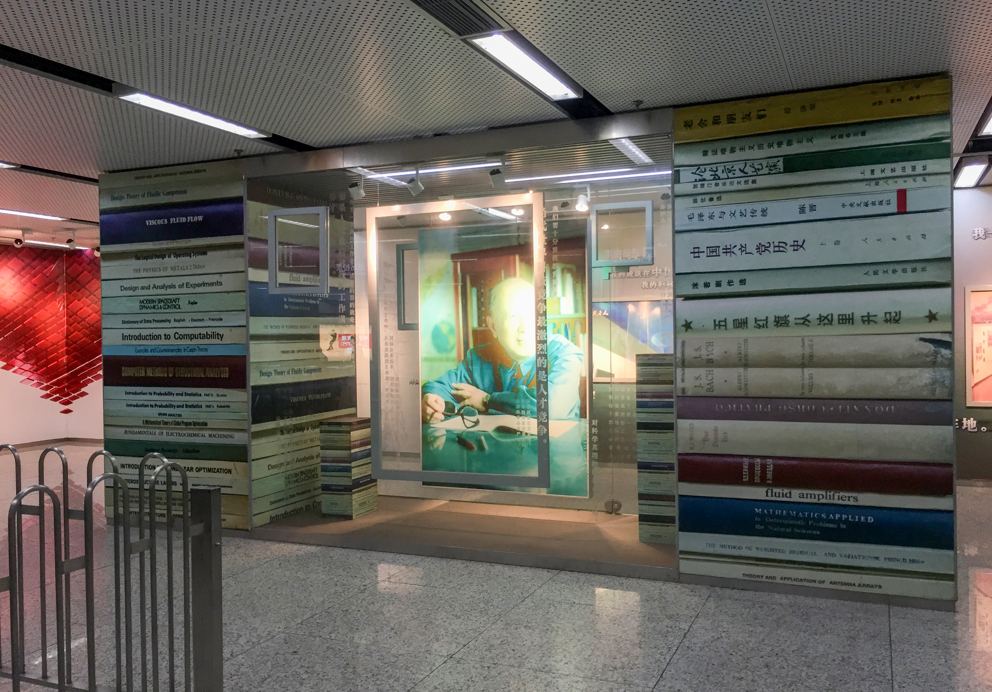 SJTU is not just "Hogwarts"...